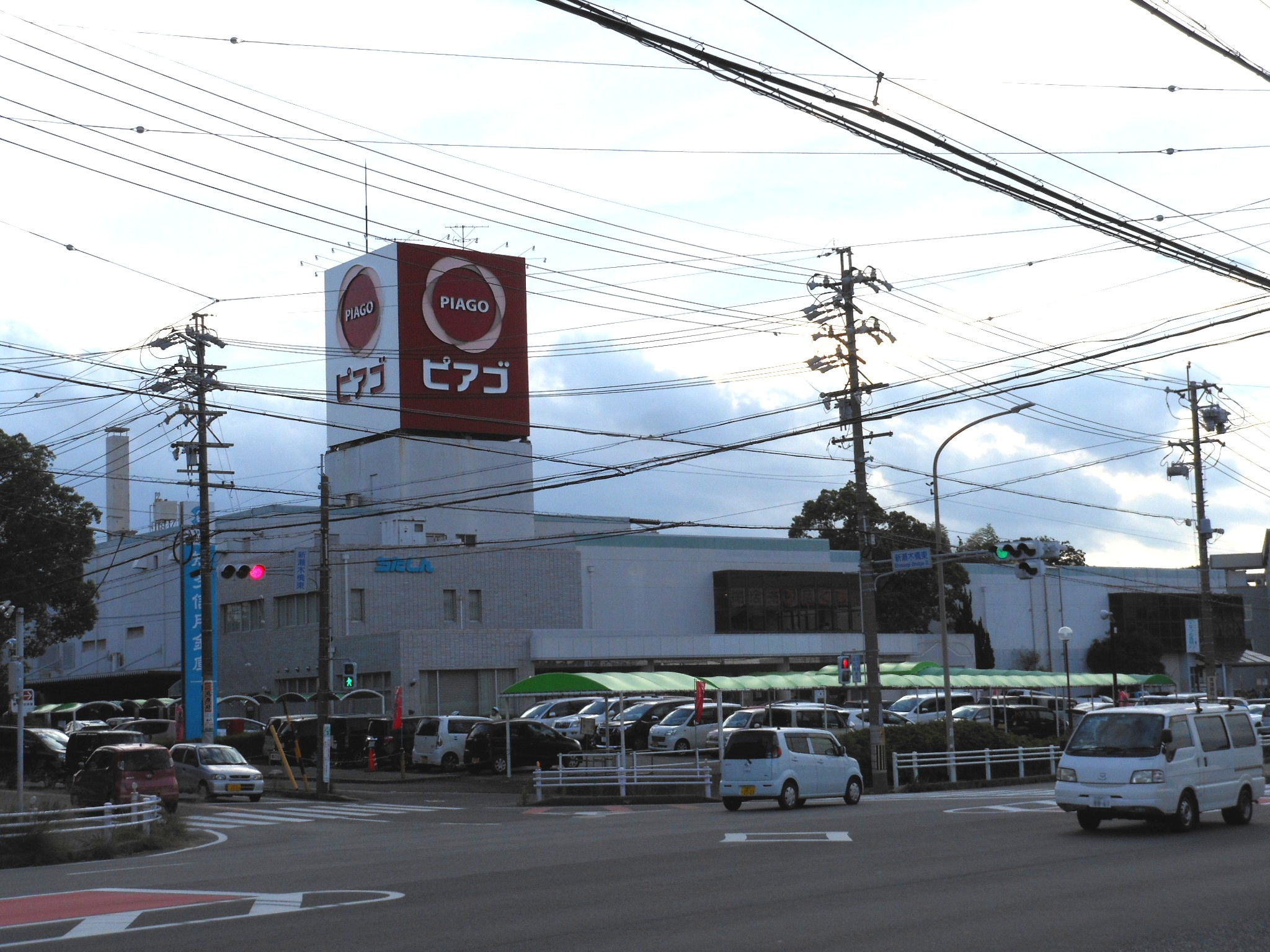 PIAGO Tokoname store in Tokoname, Aichi